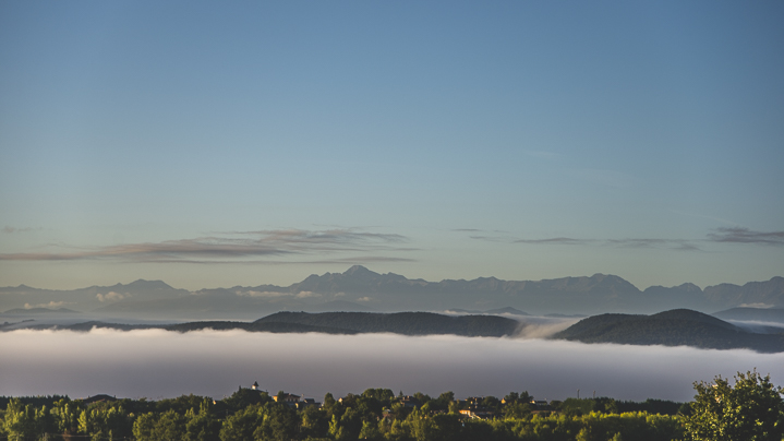 View of the town centre of Mondavezan and of the Pyrénées, from Ganchat, at the top of Mondavezan